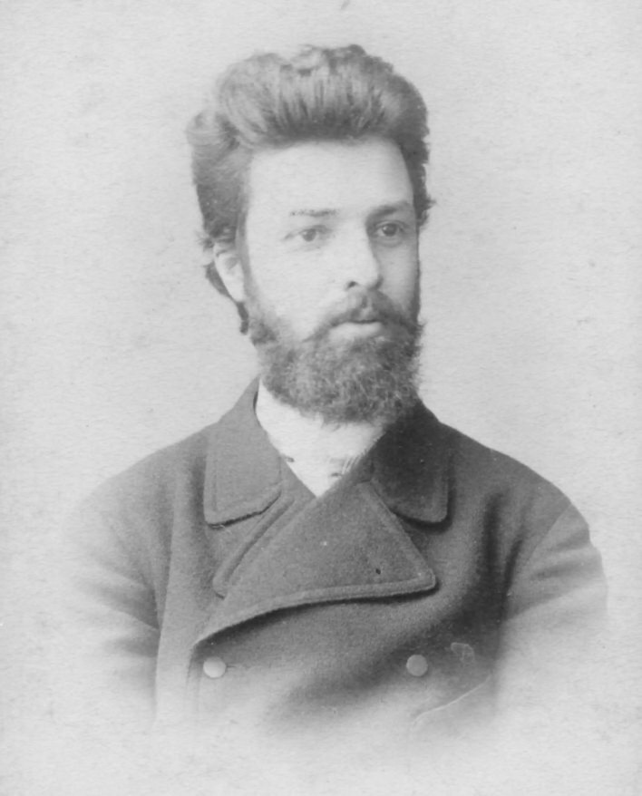 Stopani Alexander Mitrofanovich - a Soviet party and state figure